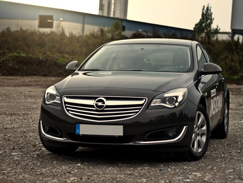 Opel Insignia 5-Türer